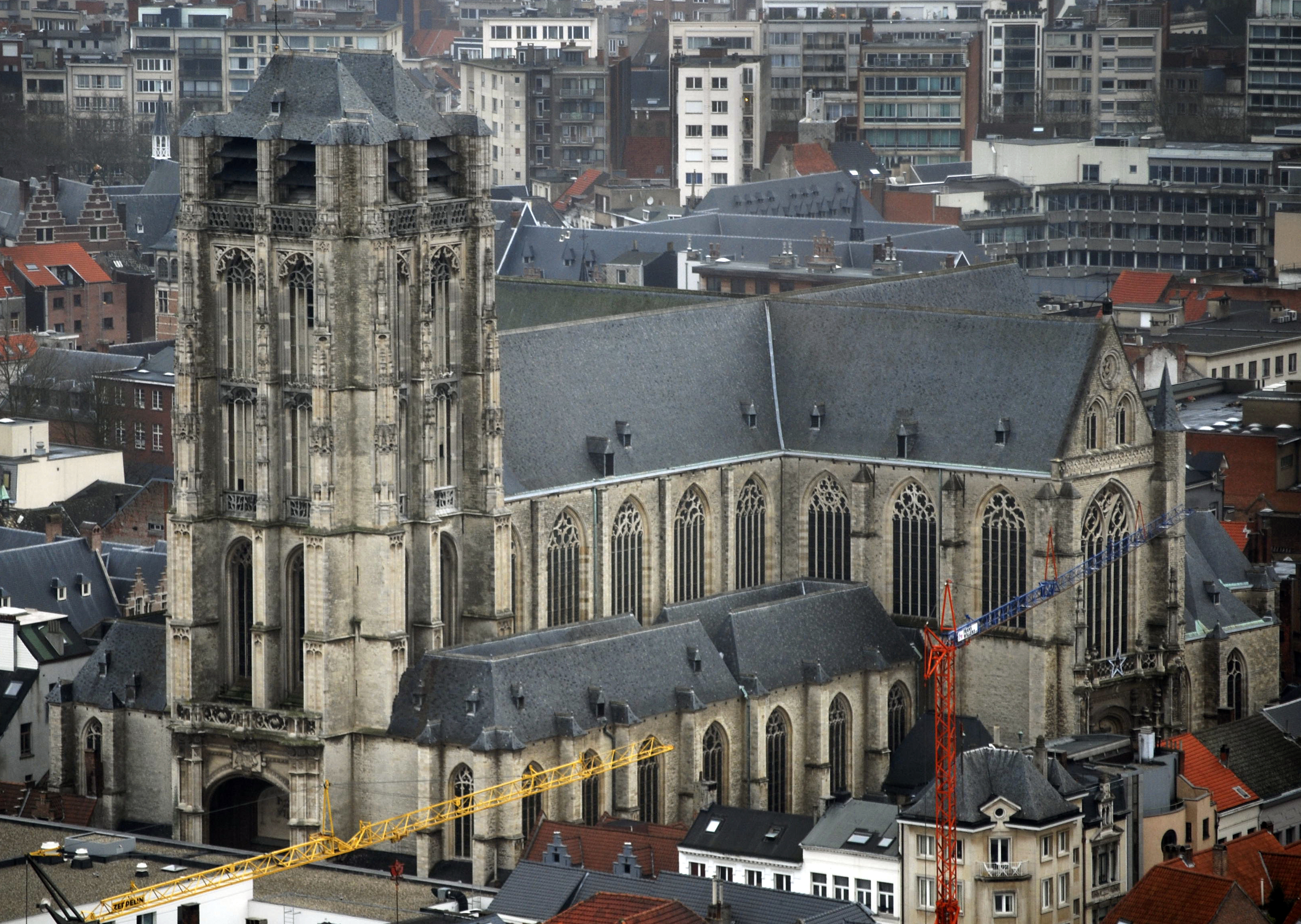 The church of Saint James in Antwerp, Belgium, seen from the panorama floor of the Boerentoren building. The tower is on the west end of the church. Nikon D60 f=102mm f/4.8 at 1/30s ISO 200. Colour corrected in Nikon ViewNX 1.0.3.